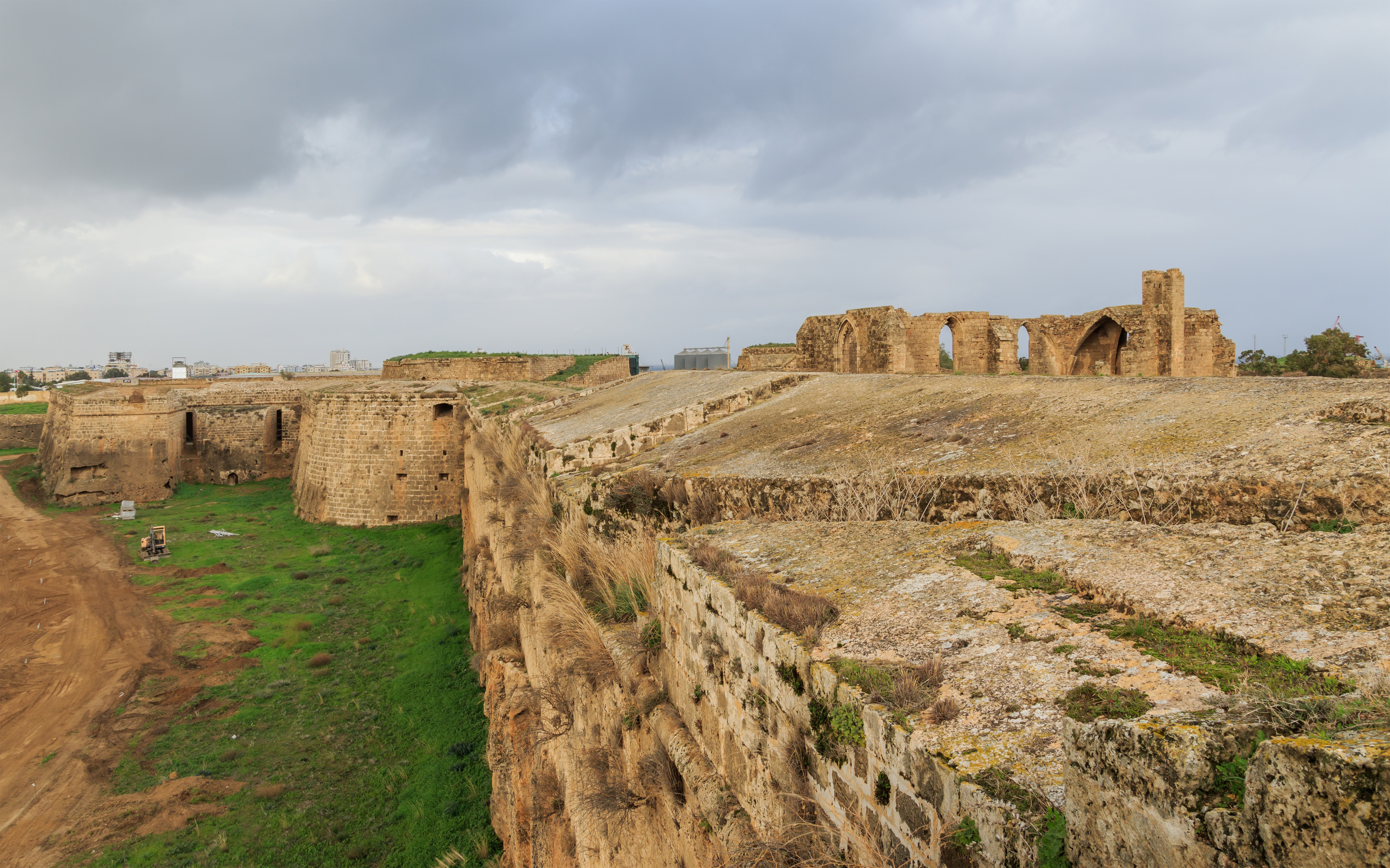 City wall (near Pulacazaro Bastion) in Famagusta, Cyprus